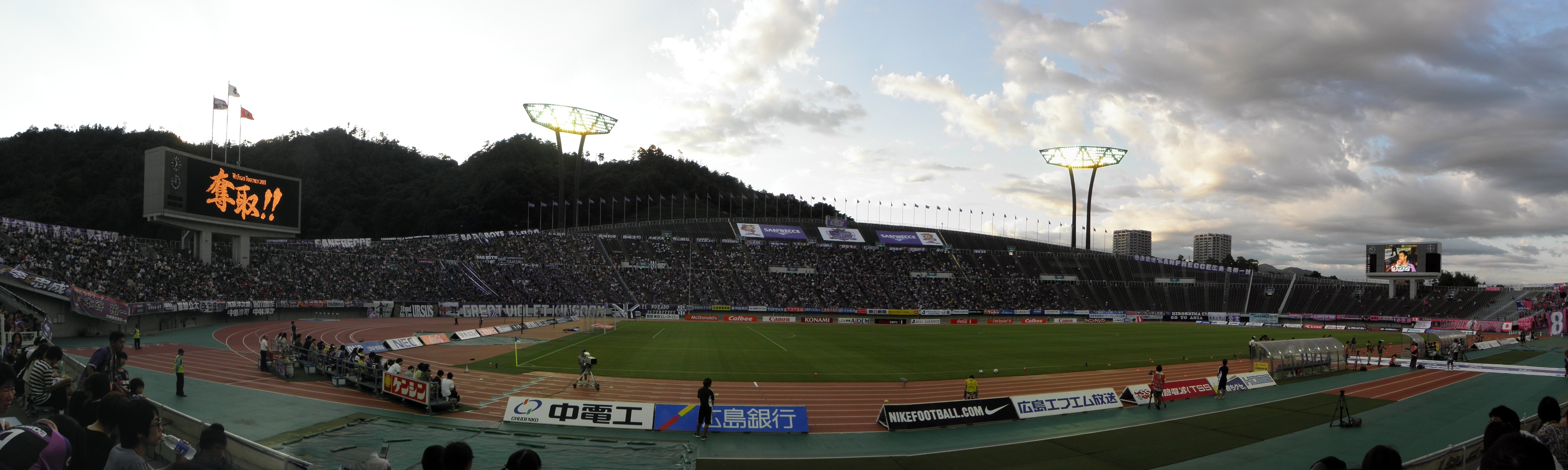 Taken from the Sanfrecce Hiroshima V Cerezo Osaka match on 10/7/11